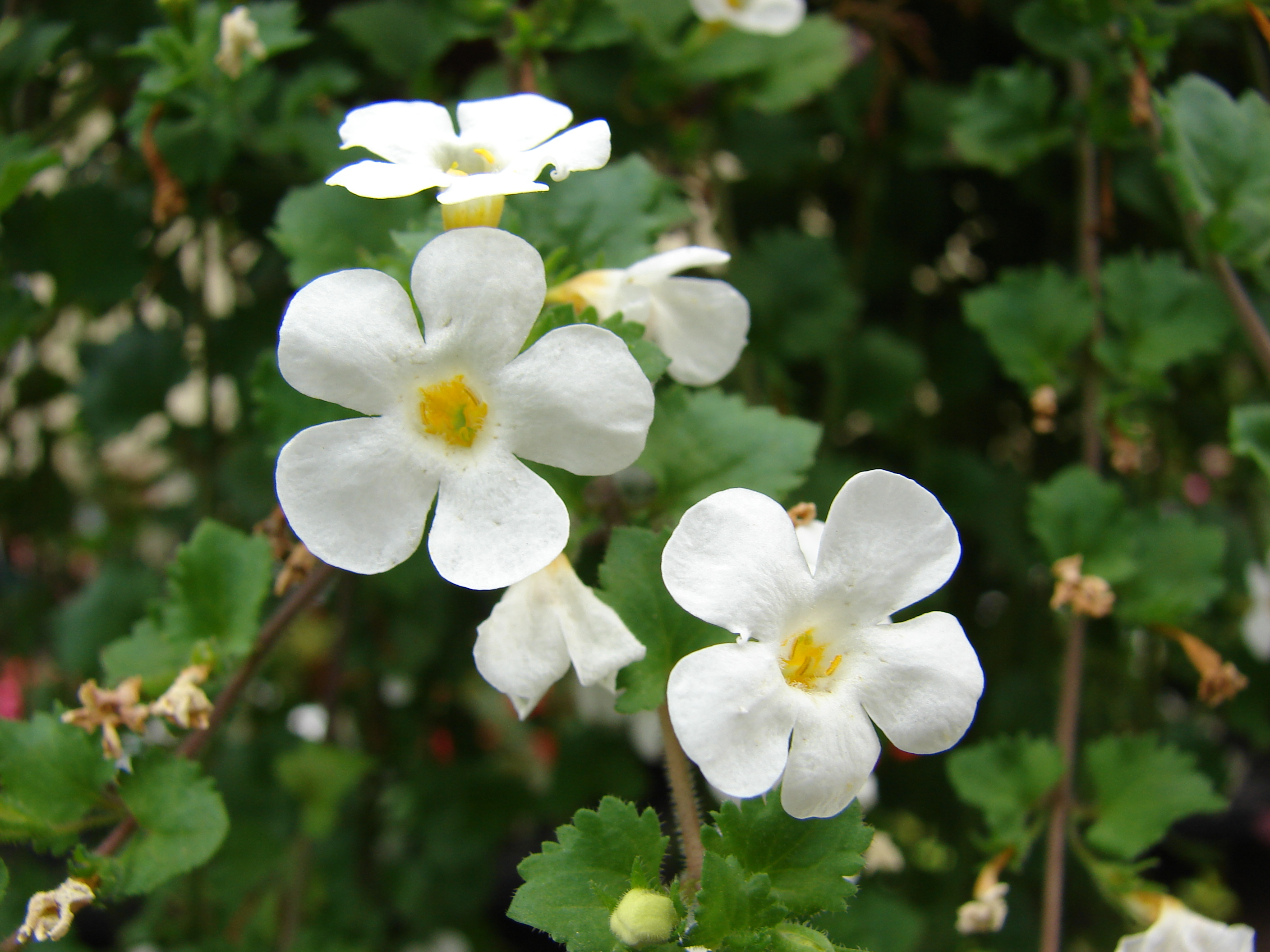 Sutera cordata (Snowstorm giant snowflake flowers and leaves). Location: Maui, Kula Ace Hardware and Nursery